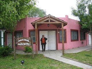 Centro de Jubilados de Lucila del Mar; ex-presidenta del Centro, Alicia Goldschmidt, a la entrada.